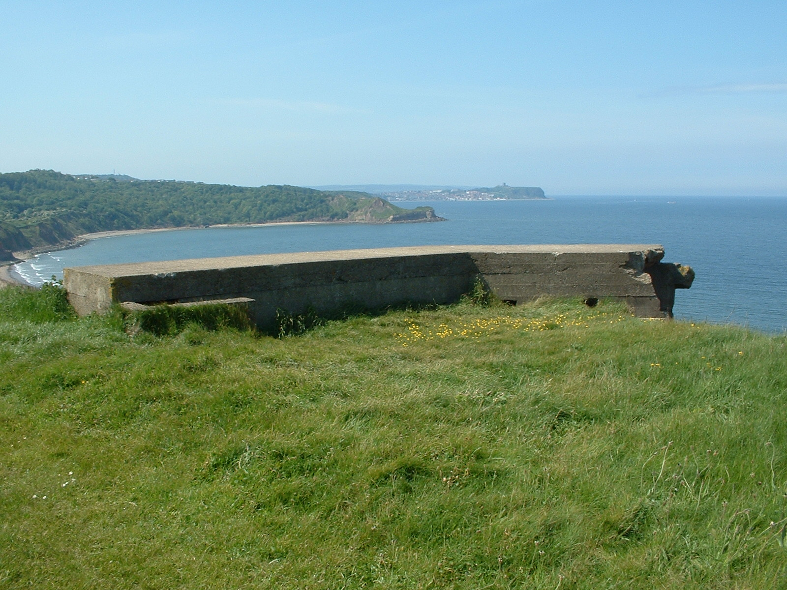 Interior of same. Section post - Cayton Bay, OS reference TA072841 Easily accessible from public footpath. Photographed by Gaius Cornelius on 07-Jun-06. OS reference TA072841